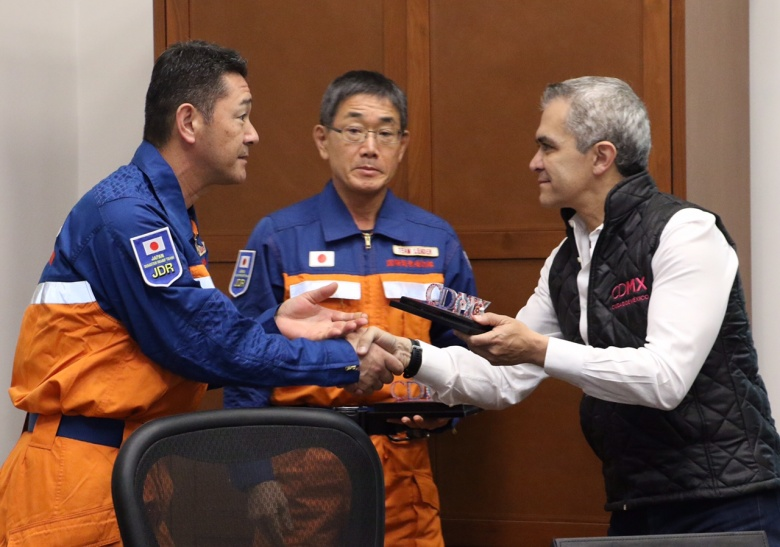 Search and rescue team from the JDR (Kokusai Kinkyū Enjotai) with Miguel Ángel Mancera, mayor of Mexico City